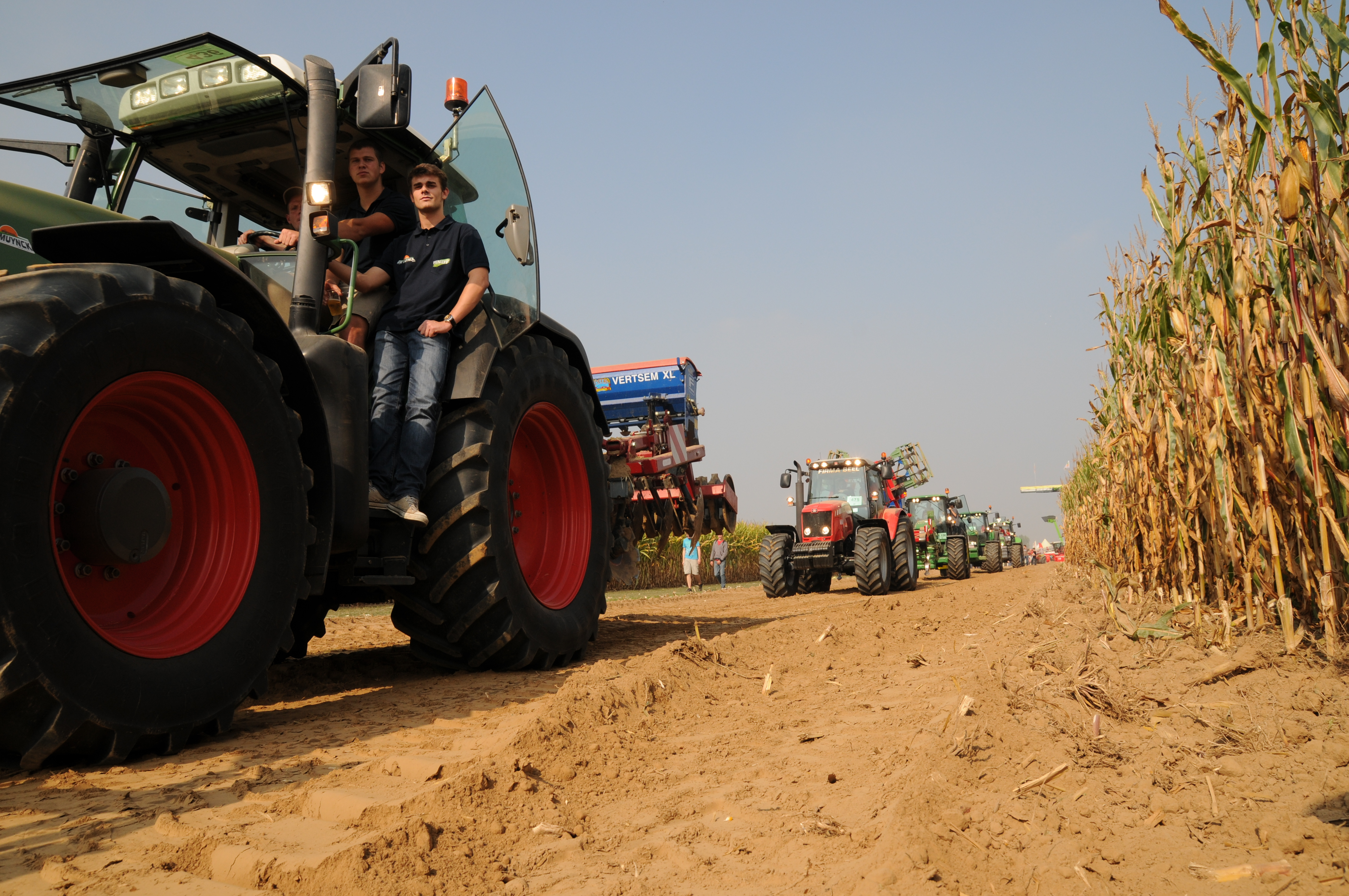 A Fendt tractor fitted with a disc harrow and a Fiona Vertsem XL seed drill, followed by a Massey Ferguson tractor with foldable cultivator, two John Deere tractors and a Deutz-Fahr tractor; photo taken at Werktuigendagen 2009 in Oudenaarde, Oost-Vlaanderen, Belgium